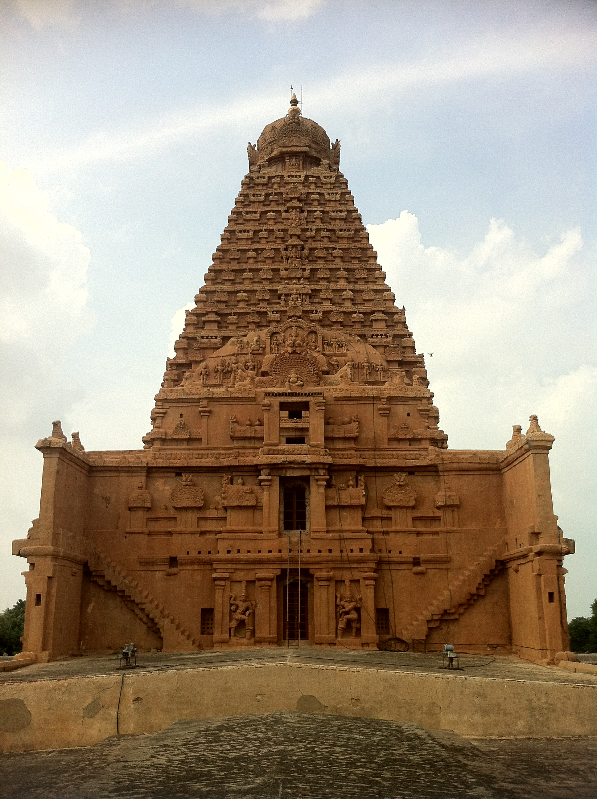 Peruvudaiyar Koyil Thanjavur entrance to the upper storey of the main tower.